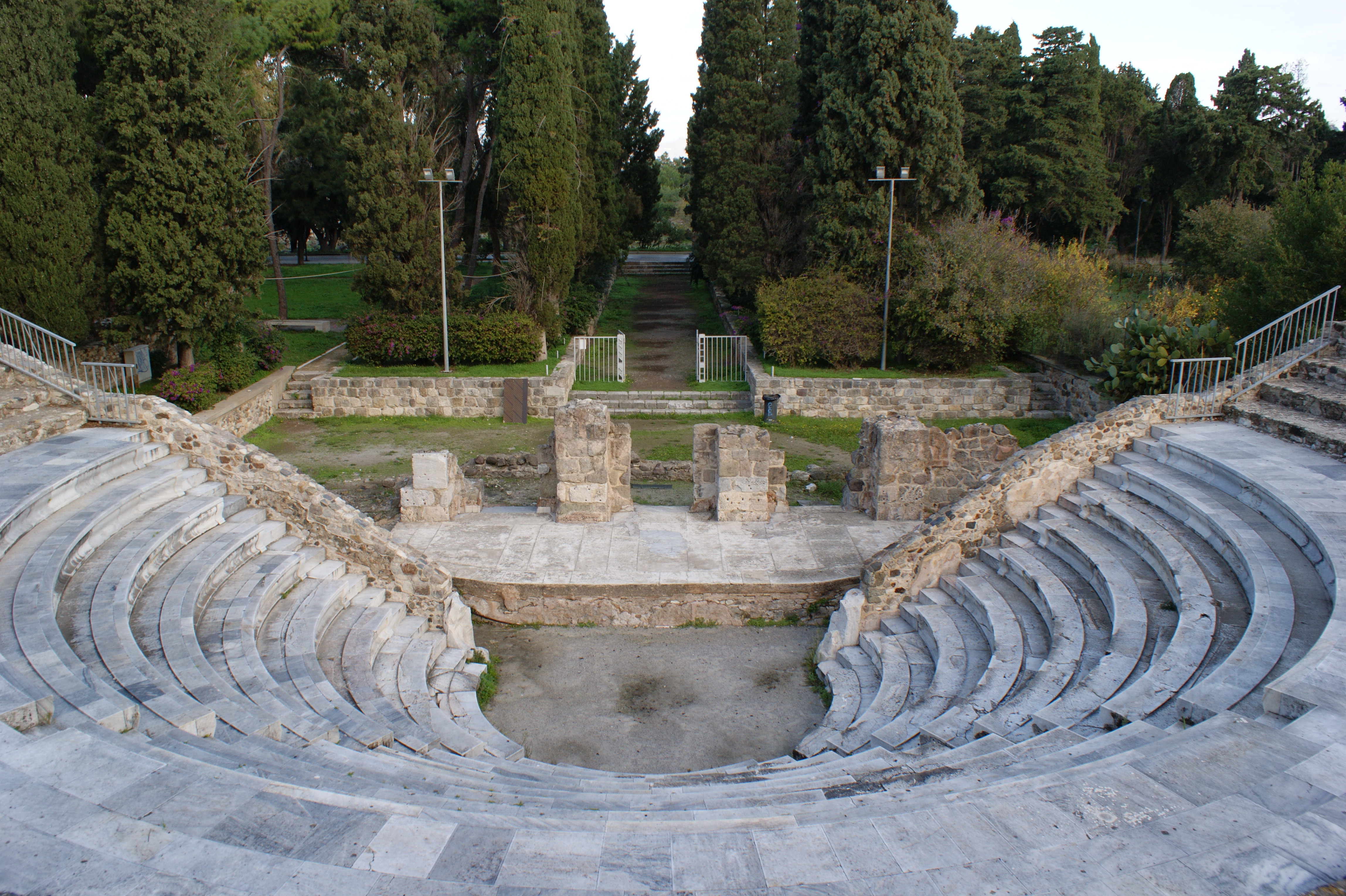 This Roman odeon (odeum, Greek: Ρωμαϊκό ωδείο) is located in the city of Kos (Κως) on the Greek island of Kos (Κω). The Odeon was discovered in 1929 by the Italian archaeologist Luciano Laurenzi during an excavation. The Odeon was built in the 2nd century after Cristus. The building was originally designed for a capacity of approx. 750 people.